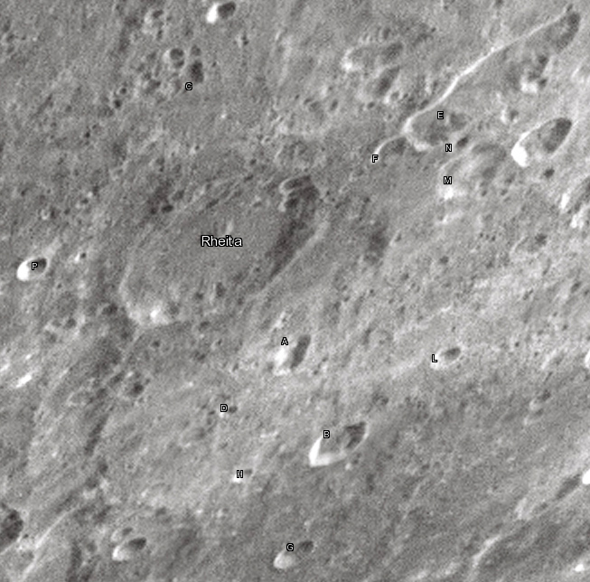 Rheita lunar crater as seen from Earth with satellite craters labeled